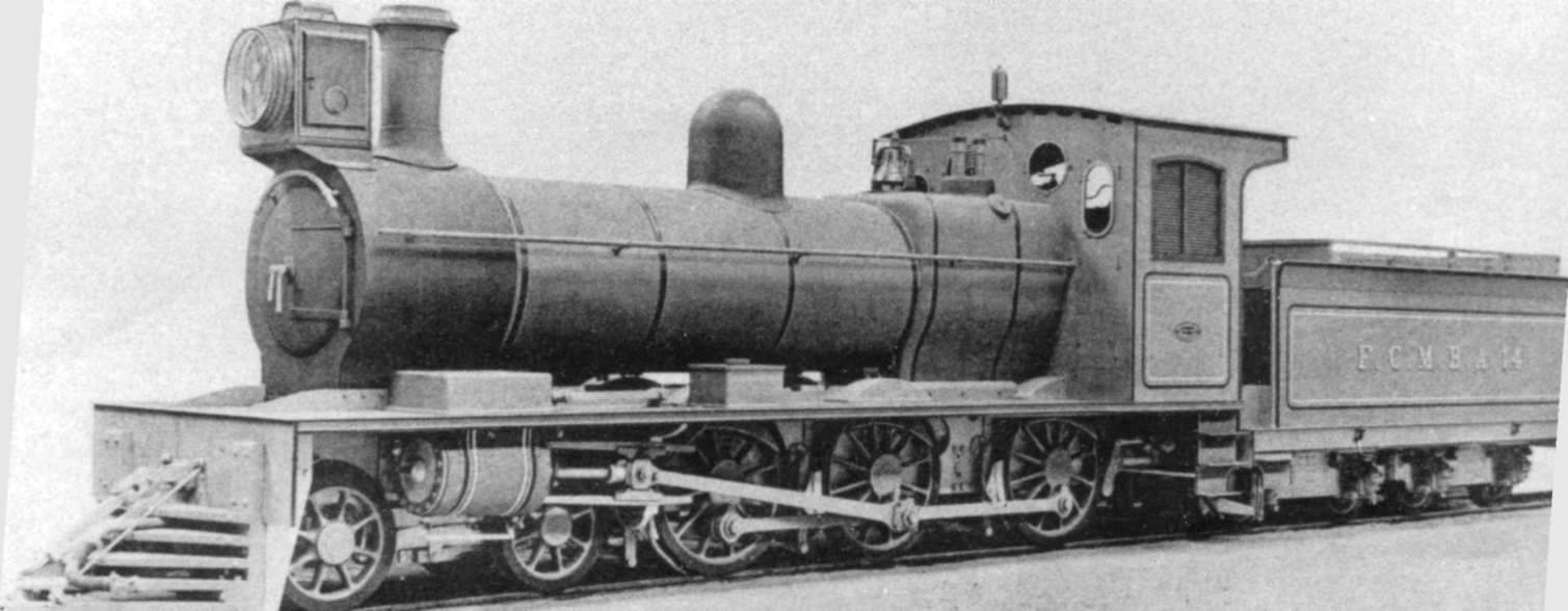 Foto de fábrica de la Clase E Nº14 Kerr Stuart 1028